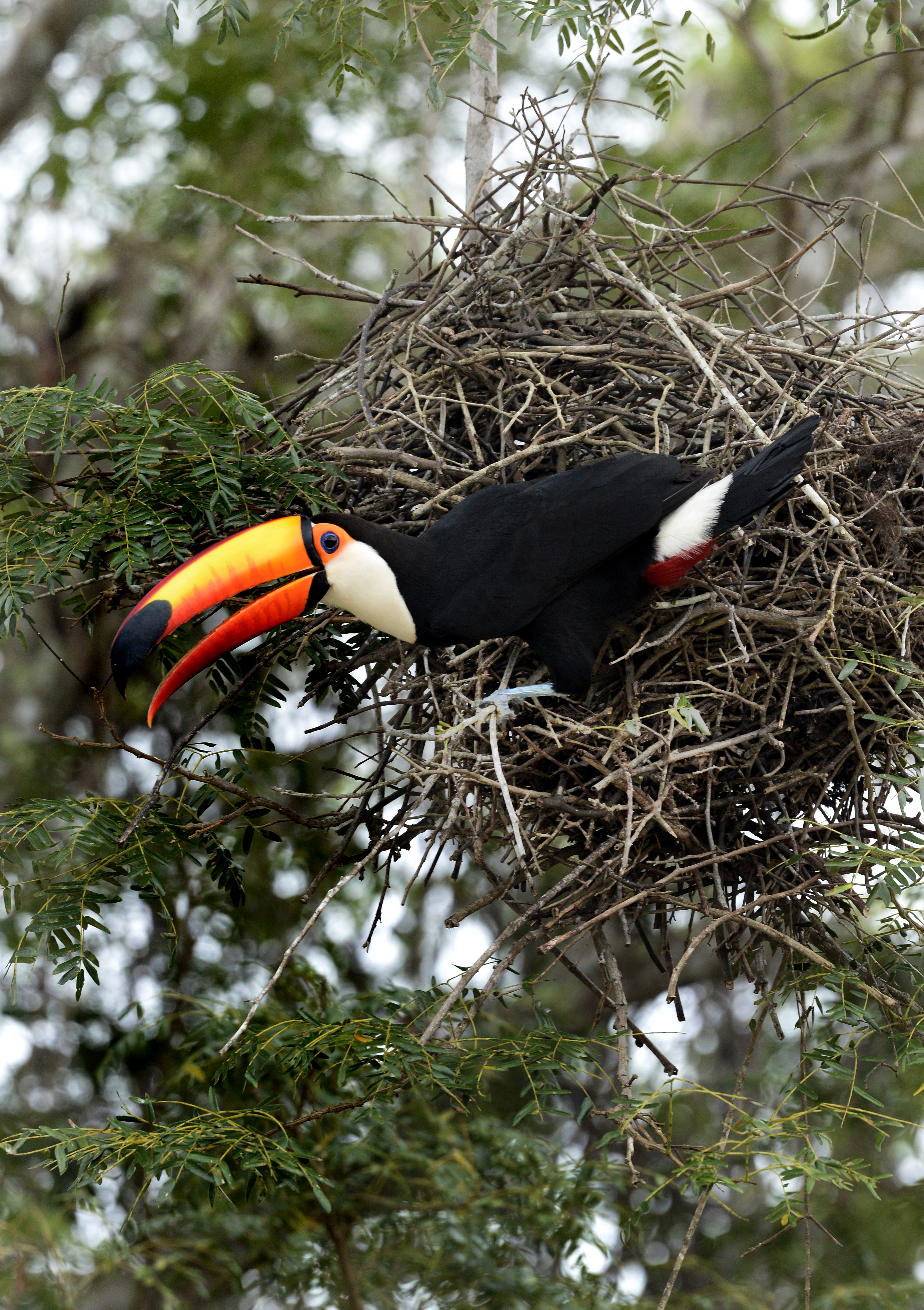 20151104 A colourful toucan in northern Pantanal.Photo by: Jan Fleischmann